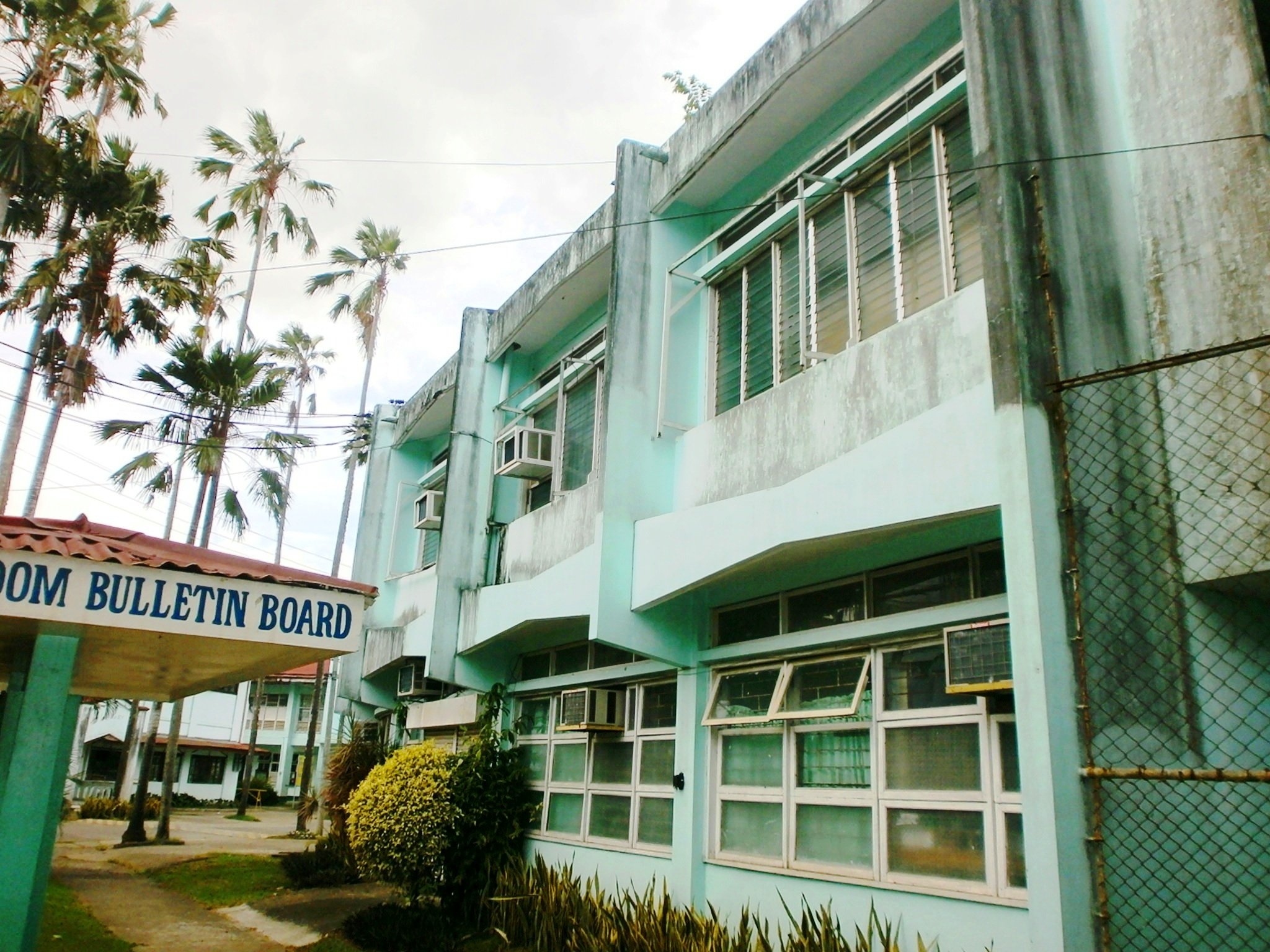 Mary J. Thomas Hall houses the Central Philippine University College of Computer Studies, medical and the dental clinics.